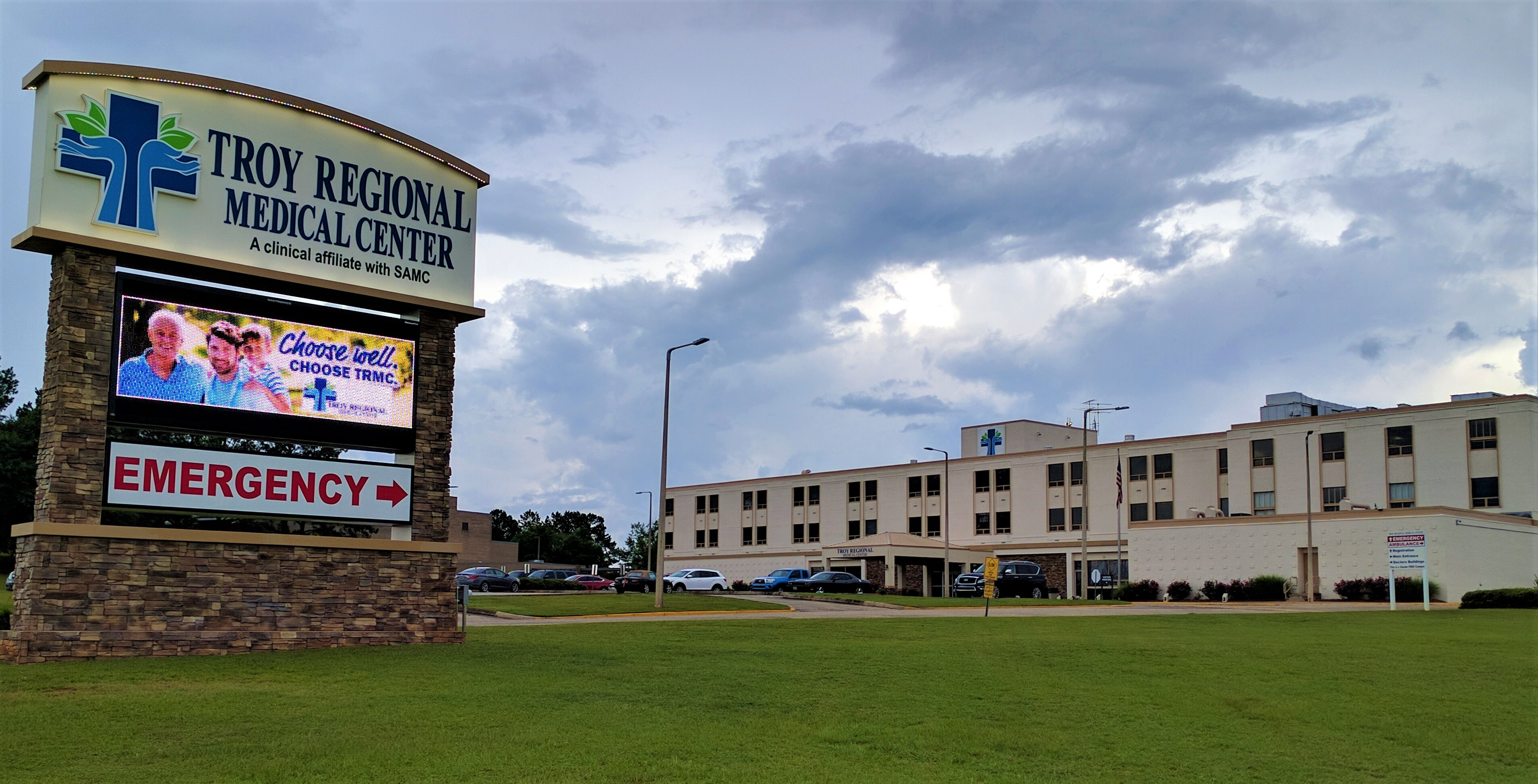 Hospital in Troy.